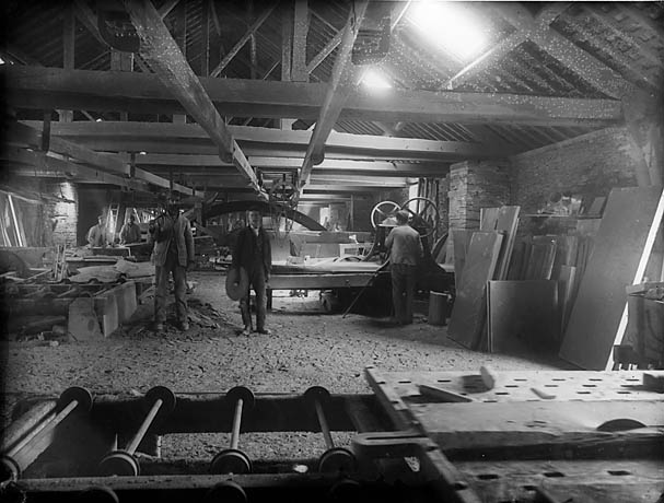 1 negative : glass, dry plate, b&w ; 16.5 x 21.5 cm.